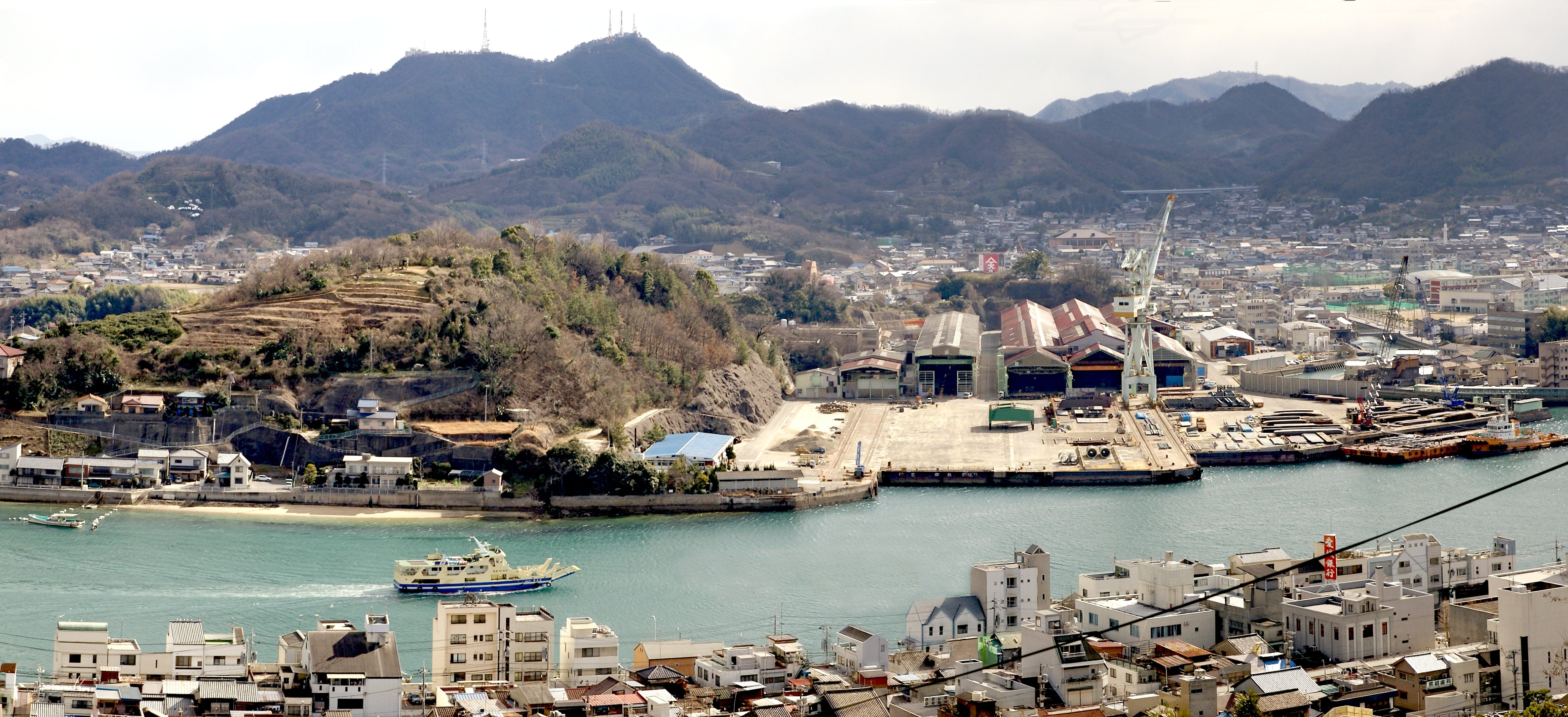 Onomichi Channel in Onomichi, Hiroshima prefecture, Japan